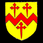 Coat of Arms of the Sandys Family